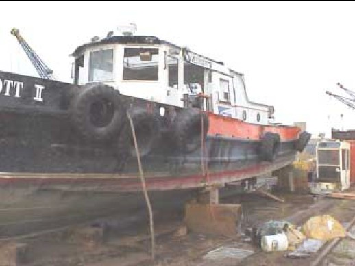 J. W. Westcott II in drydock after salvage.